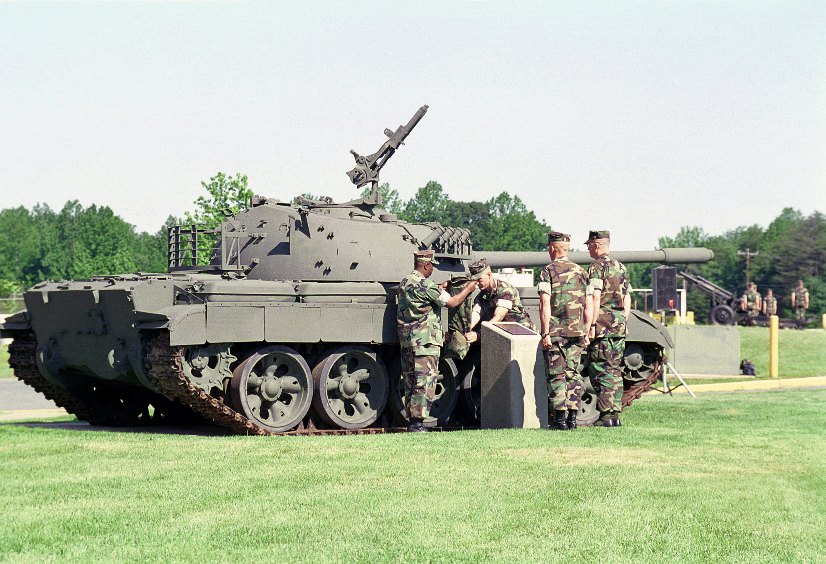 The Chinese built T-69 (Type II) main battle tank that sits in front of Cox Hall was dedicated to the enlisted Marines of The Basic School (TBS) on June 7, 2000 during a memorial dedication for Sergeant Manuel A. Cox who died December 4, 1983 as the result of the Marine Barracks bombing in Beirut, Lebanon October 23, 1983. Location: MARINE CORPS BASE, QUANTICO, VIRGINIA (VA) UNITED STATES OF AMERICA (USA)